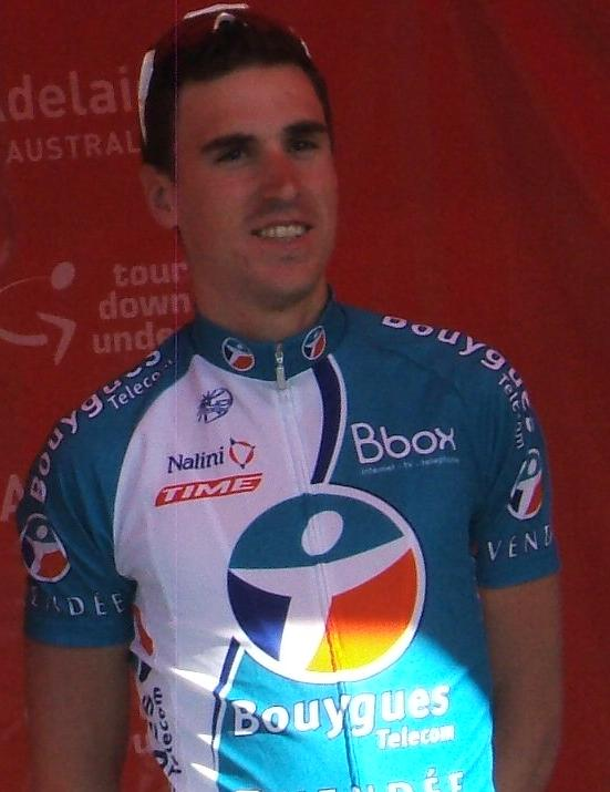 Named cyclist at the en:2009 Tour Down Under team presentation